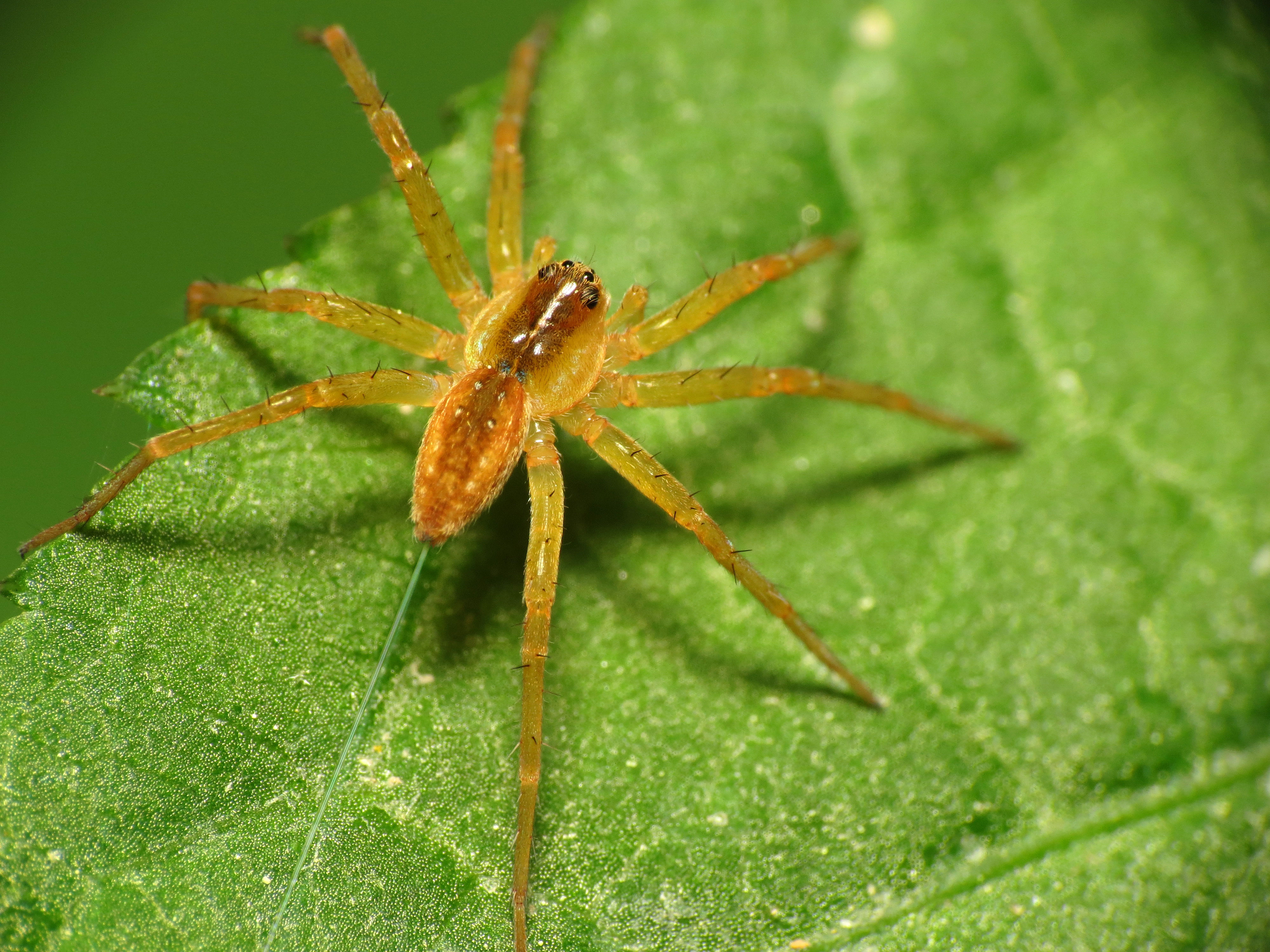 Pisauridae. Rock Creek Park, Washington, DC, USA. 25 May 2014.